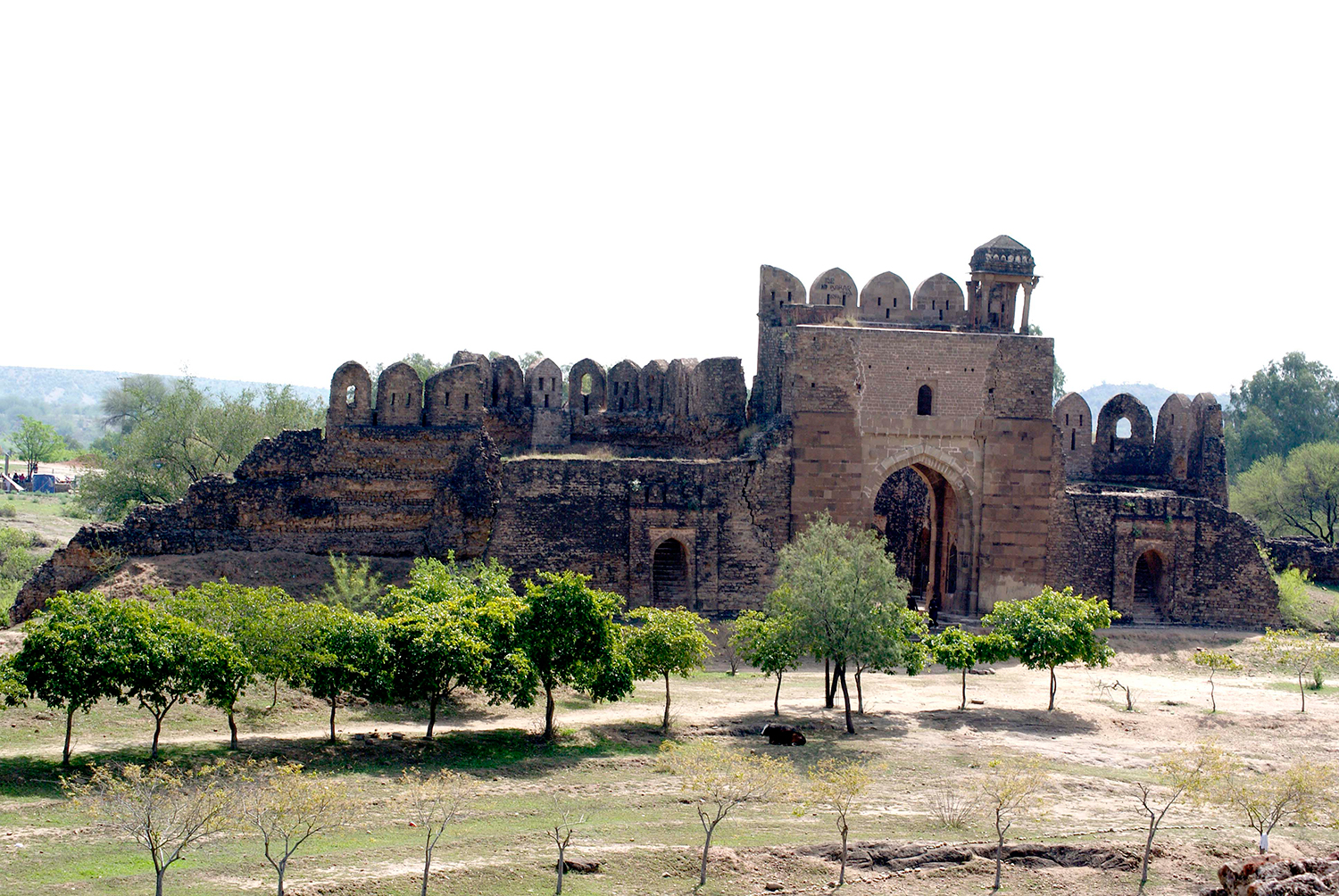 Faseel Rohtas Fort Jhelum